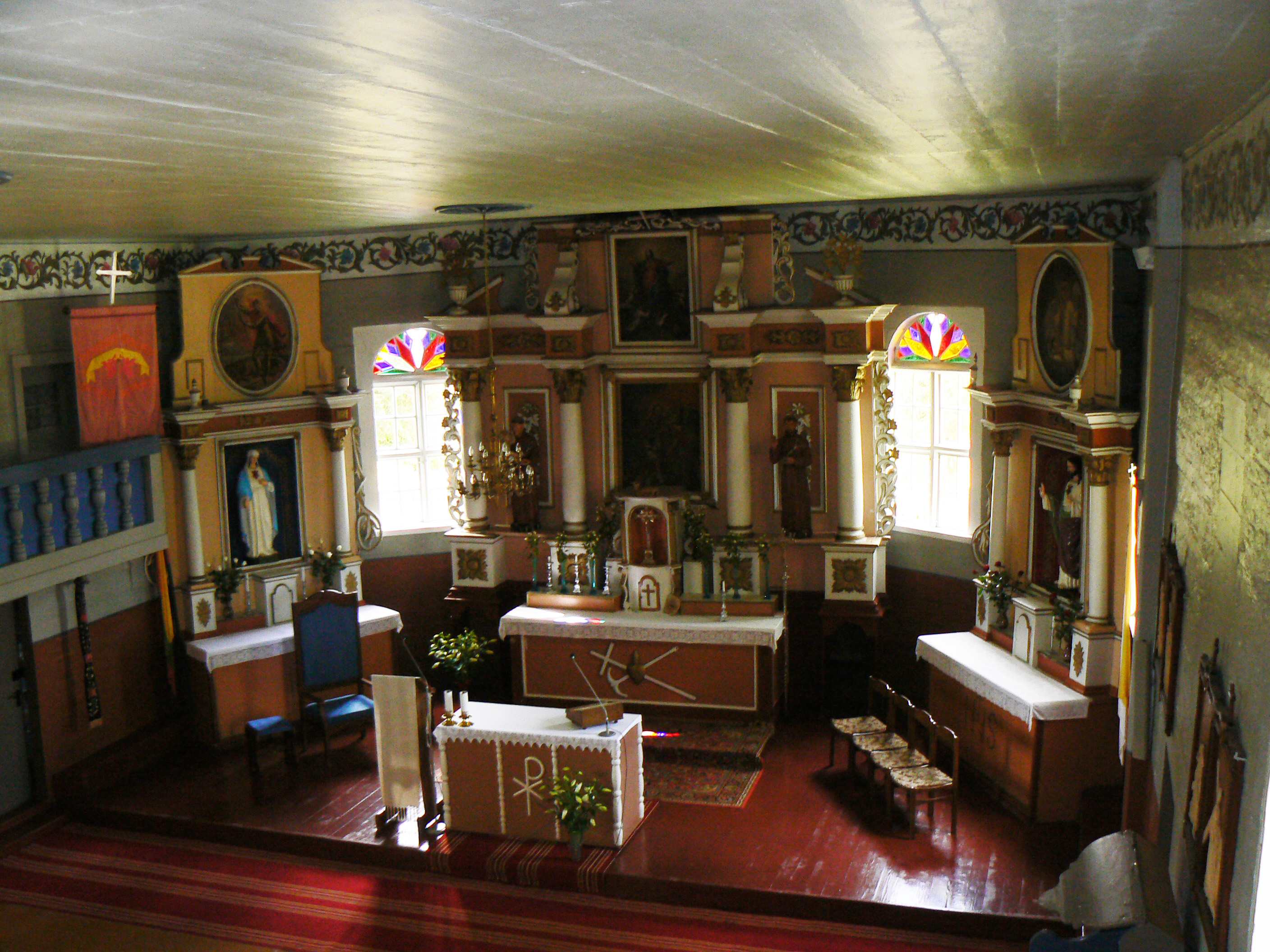 Saint Rokas church in Varsėdžiai - interier